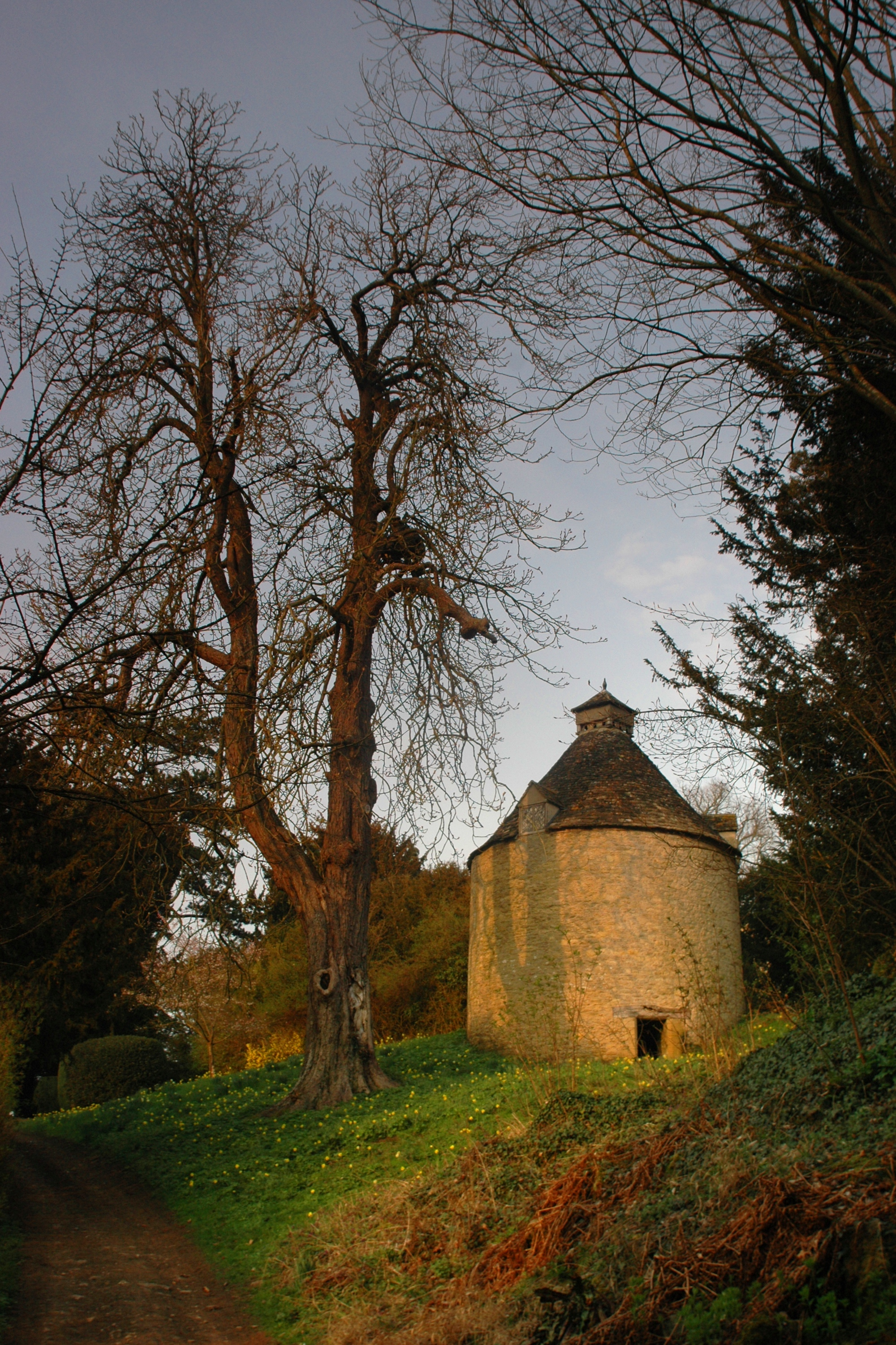 Dovecote, probably 17th century, at Kiddington Hall, Oxfordshire